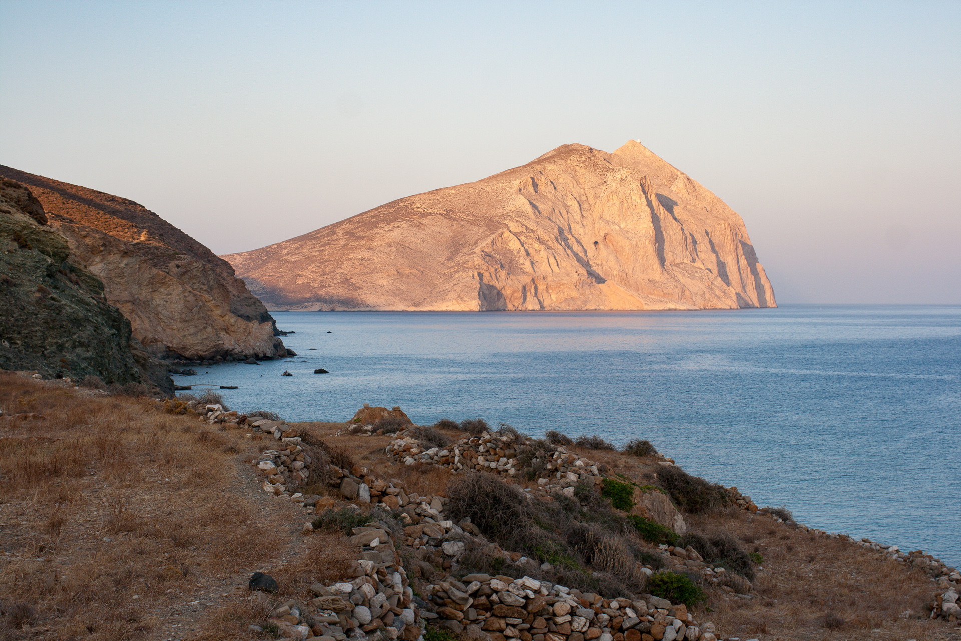 This is a photography of Natura 2000 protected area with ID GR4220002